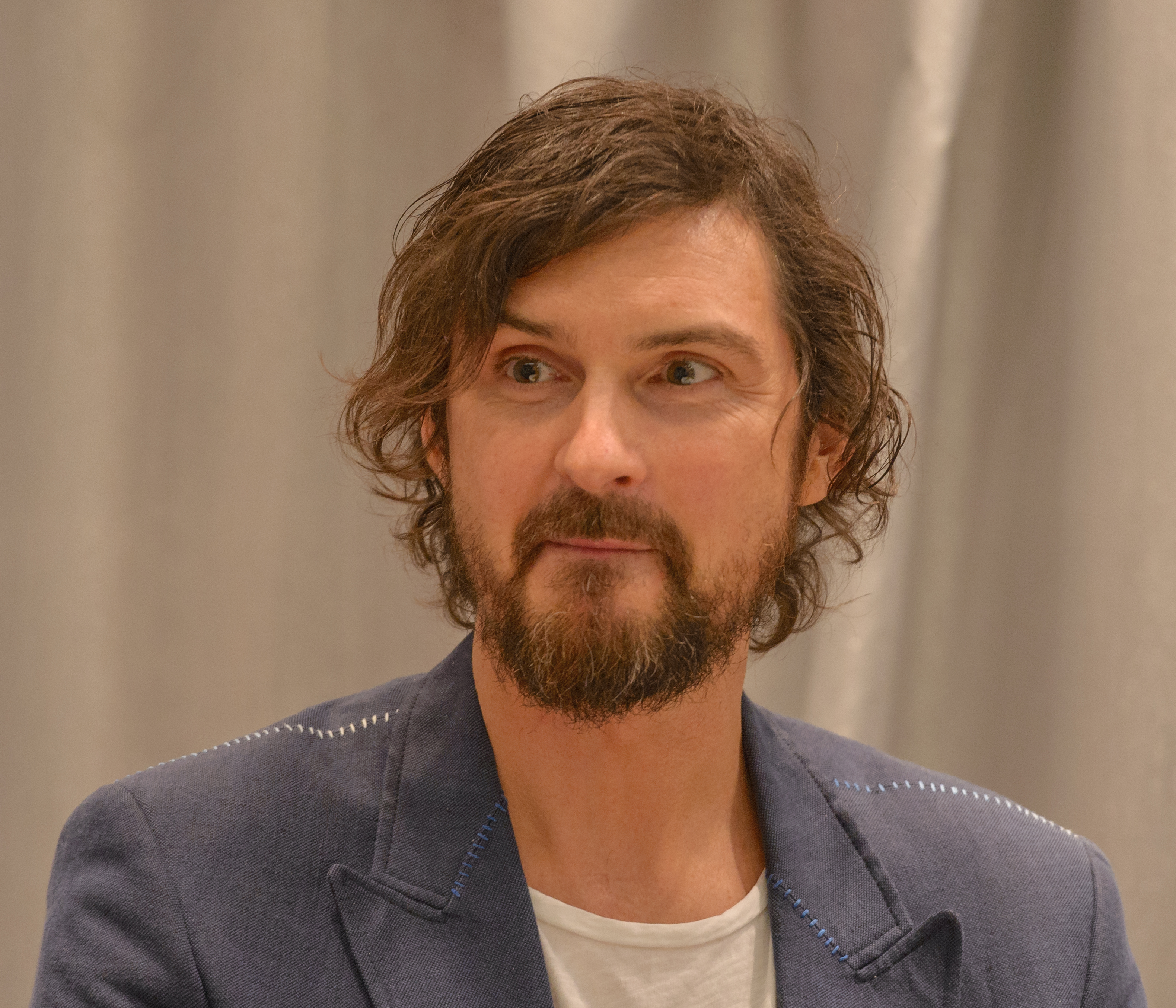 Morgan Larsson at Göteborg Book Fair 2014.